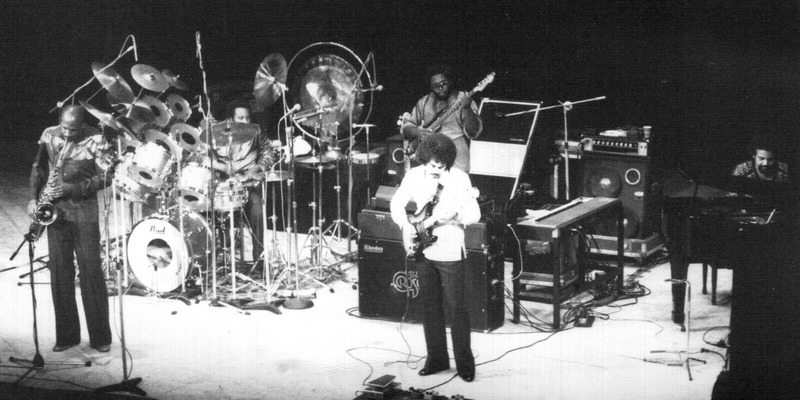 American jazz and soul music group, The Crusaders in Paris, France.